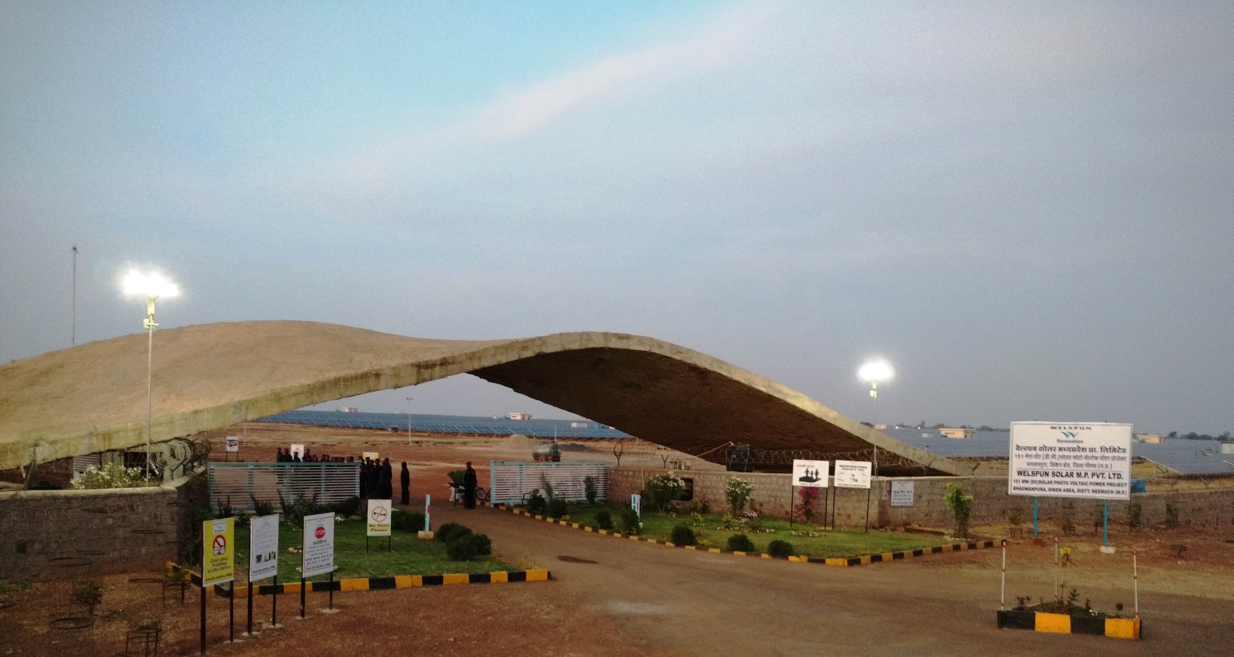 The 151 MW (DC) solar plant at Neemuch is one of the largest solar plants in the world. The entire solar project was commissioned eight months ahead of scheduled May 2014 deadline From September 2013 till the scheduled date of commissioning, 168 million units of much needed clean energy were pumped into the state grid. The project is providing power to 624,000 homes and mitigating 216,372 tons of carbon emission annually